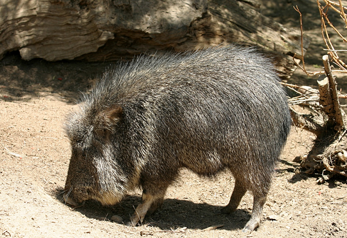 A Chacoan Peccary at the San Diego Zoo in San Diego, California, USA.